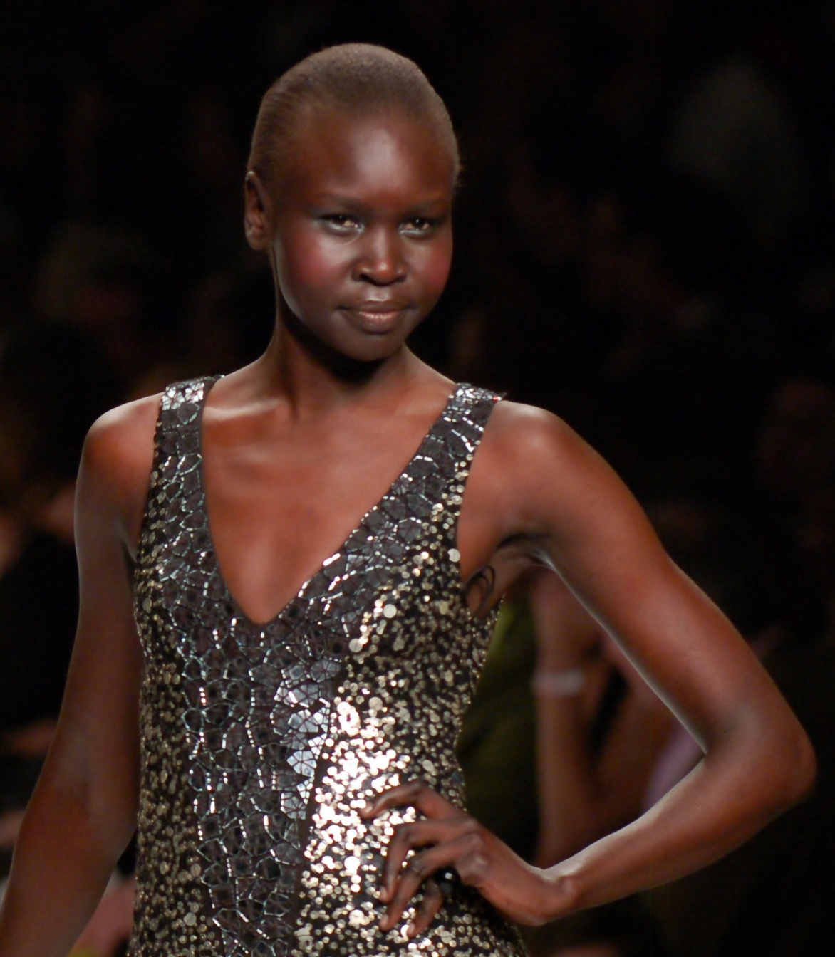 Alek Wek at FashionWeekLive in San Francisco, March 15, 2007. Photo by Jesse Gross.